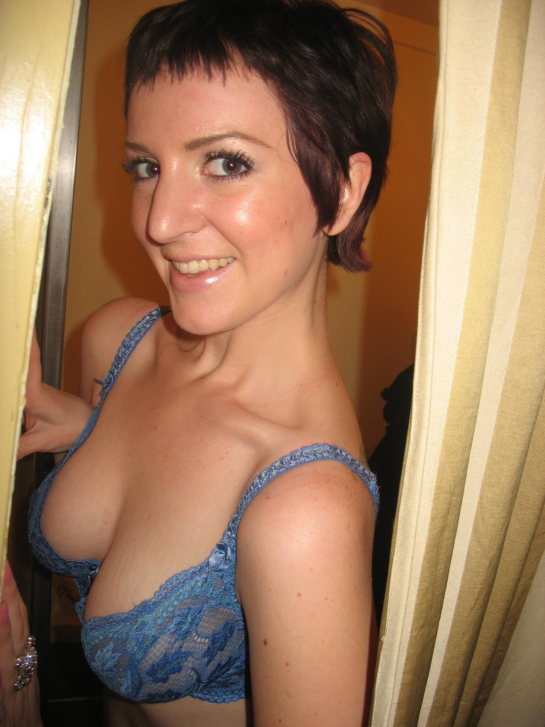 Cropped version of a photo taken from of a woman wearing a blue bra.